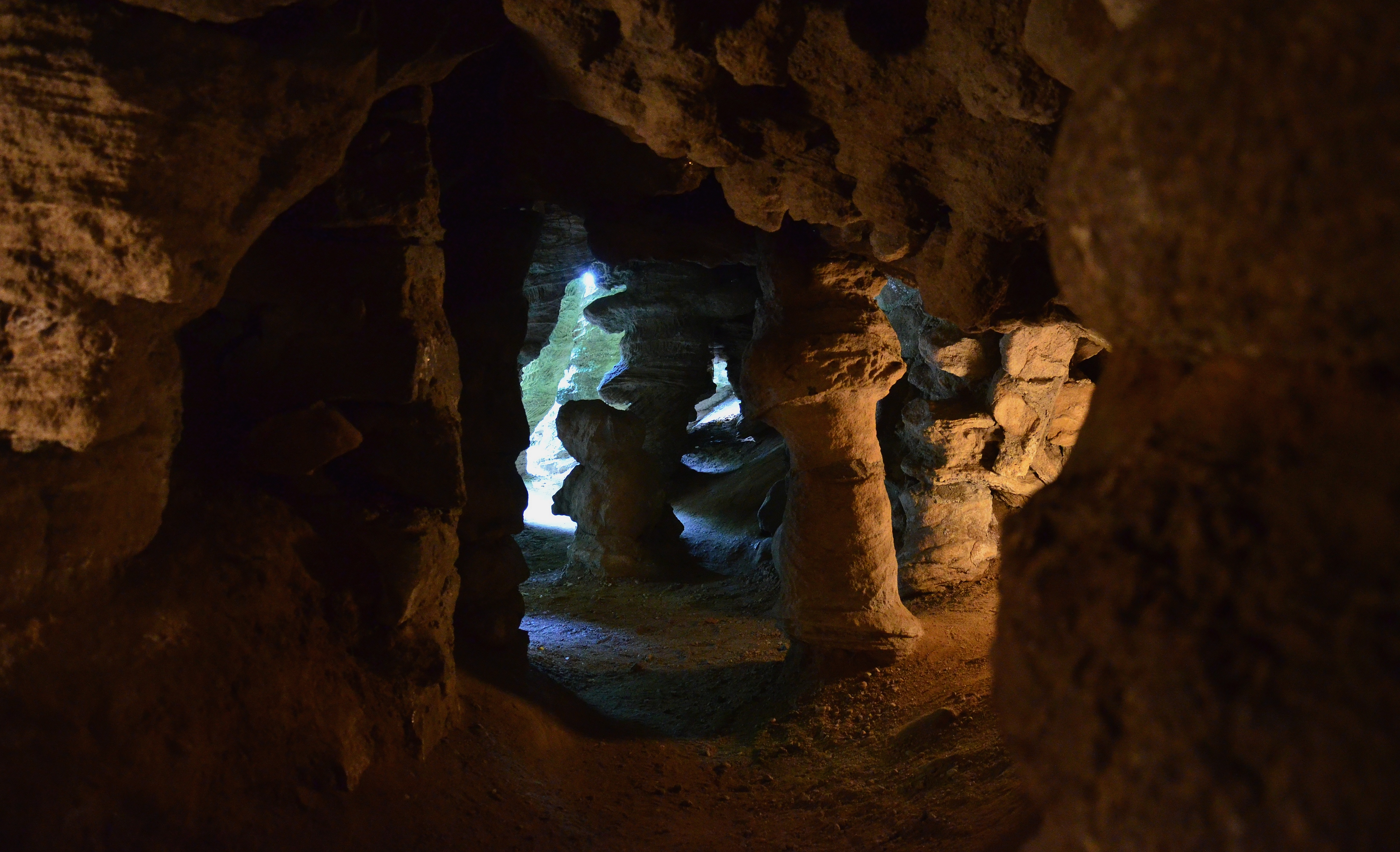 Grotto in Mechowo, Pomeranian Voivodeship